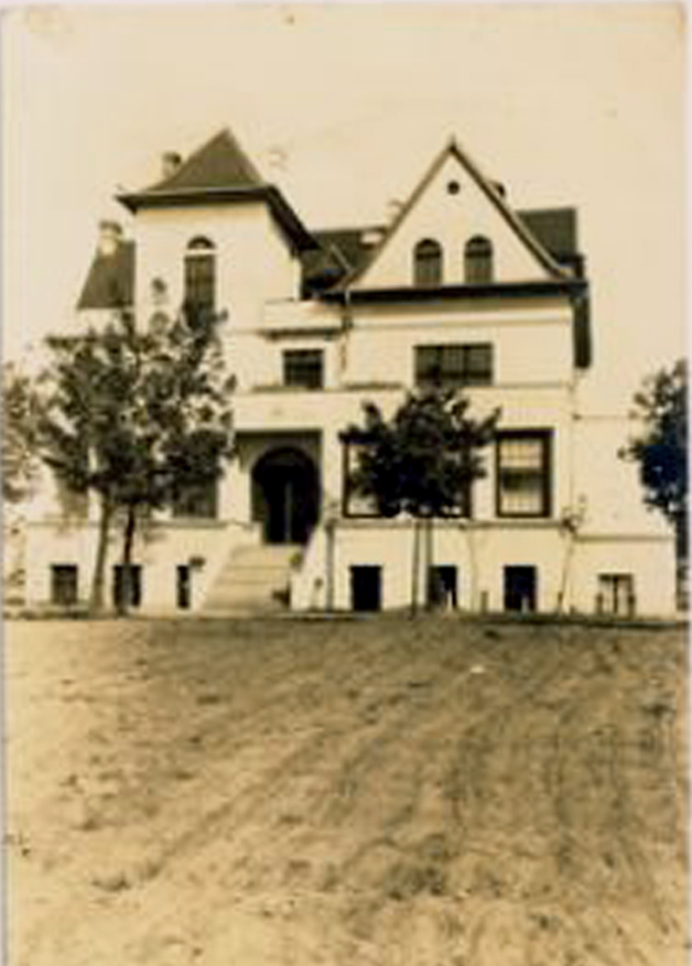 Helenówek Orphanage, Łódź, Poland before World War II.